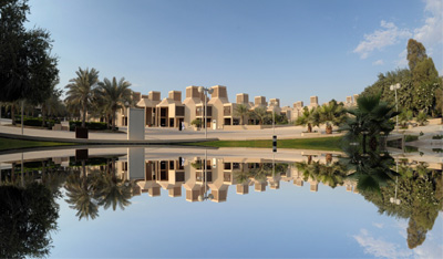 Qatar Unversity Main